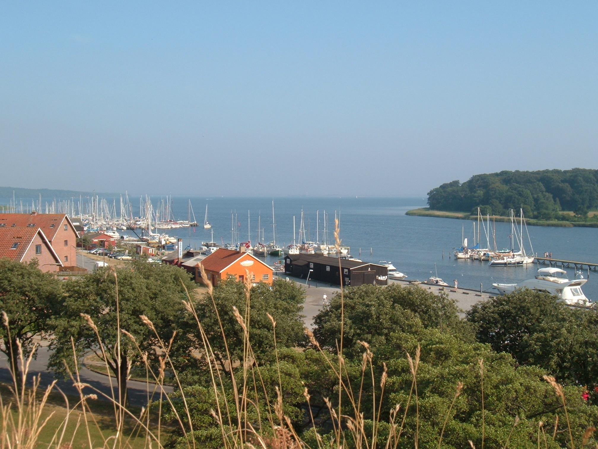 View from remaining walls of Vordingborg castle, Zealand, Denmark overlooking sea approach to the city. Taken by contributor, July 2006.